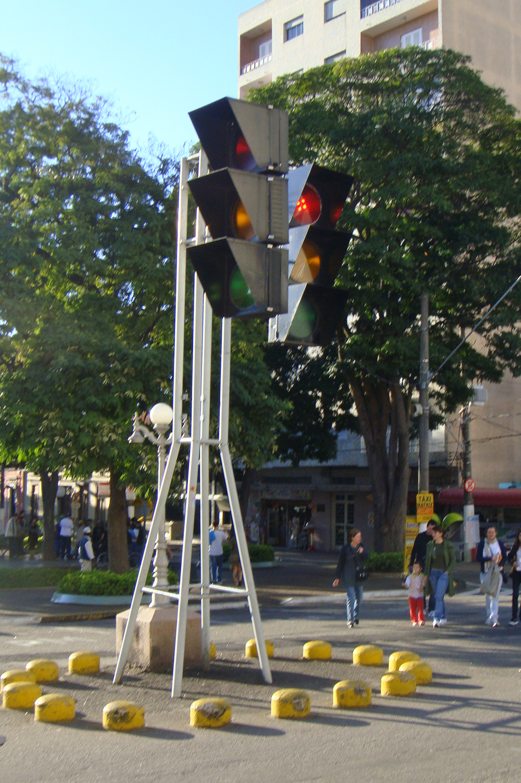 Giant traffic signal at downtown Itu, São Paulo, Brazil.